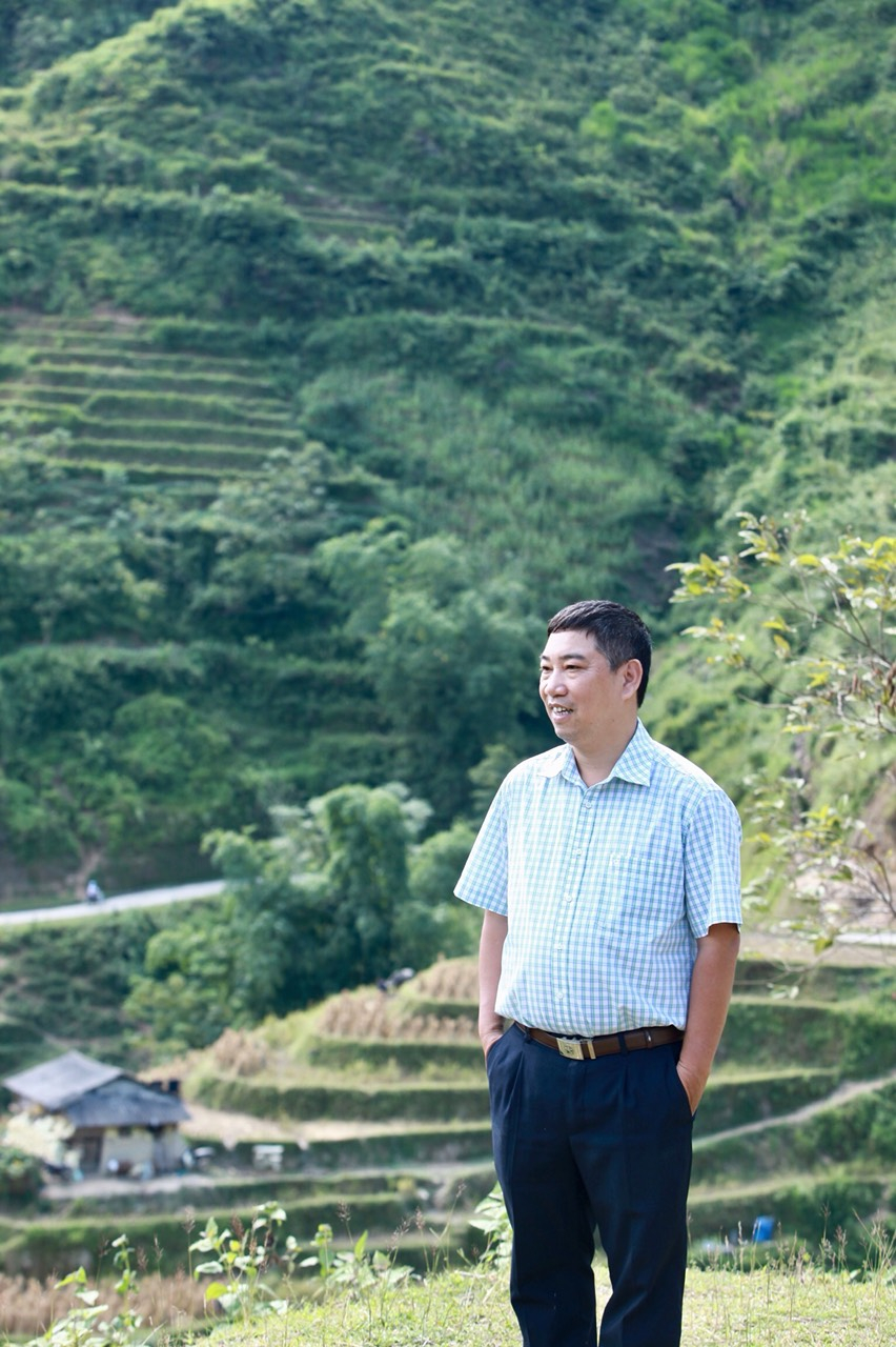 Mai Van Lang at Ha Giang - Vietnam in September 2019